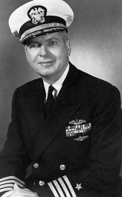 Personal Family Portrait commissioned by family, located in family photo album from 60 years ago. Published of back cover of Admiral Roy M. Davenport’s published diary, Clean Sweep, Vantage Press 1986